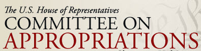 Logo of the United States House Committee on Appropriations